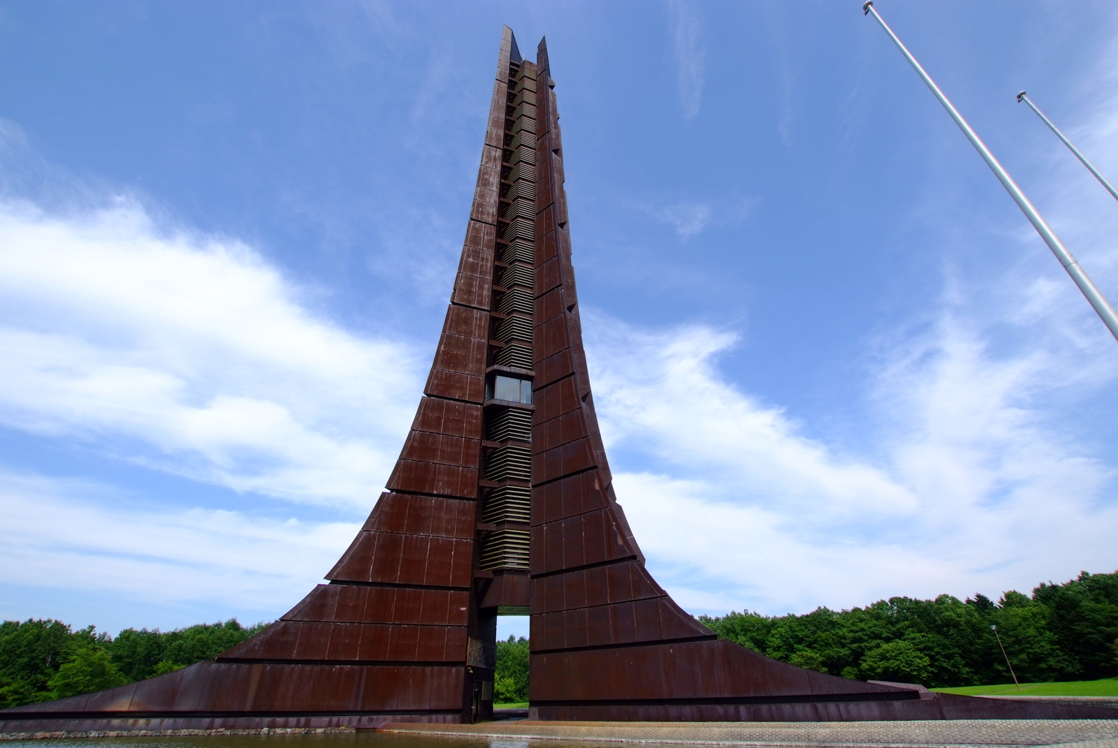 HOKKAIDO 100YEARS MEMORIAL TOWER